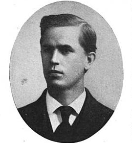 Photograph of L. H. Hausam, professor of penmanship and writing, and business college leader in the United States in the early 1900s